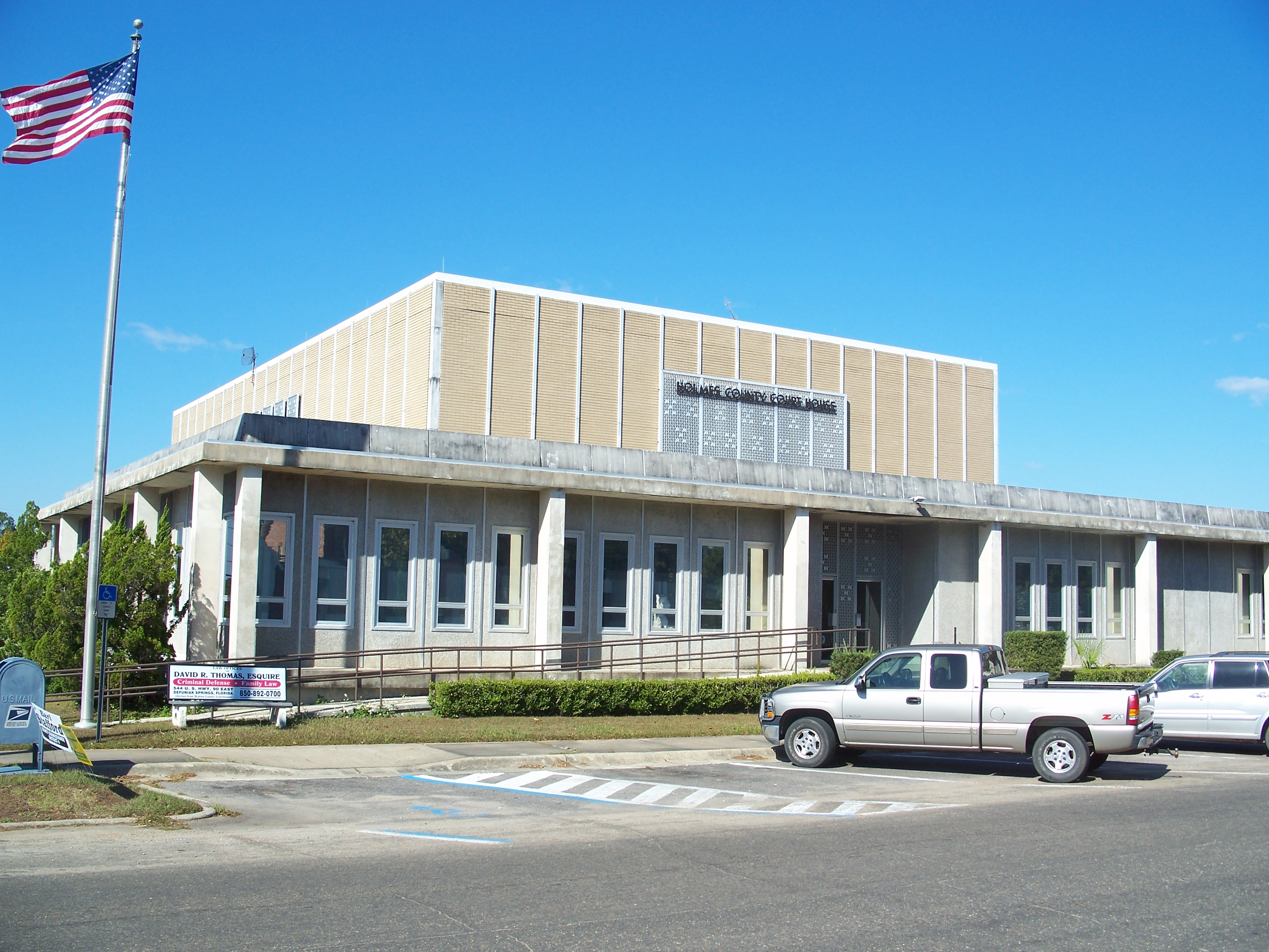 Bonifay, Florida: County courthouse